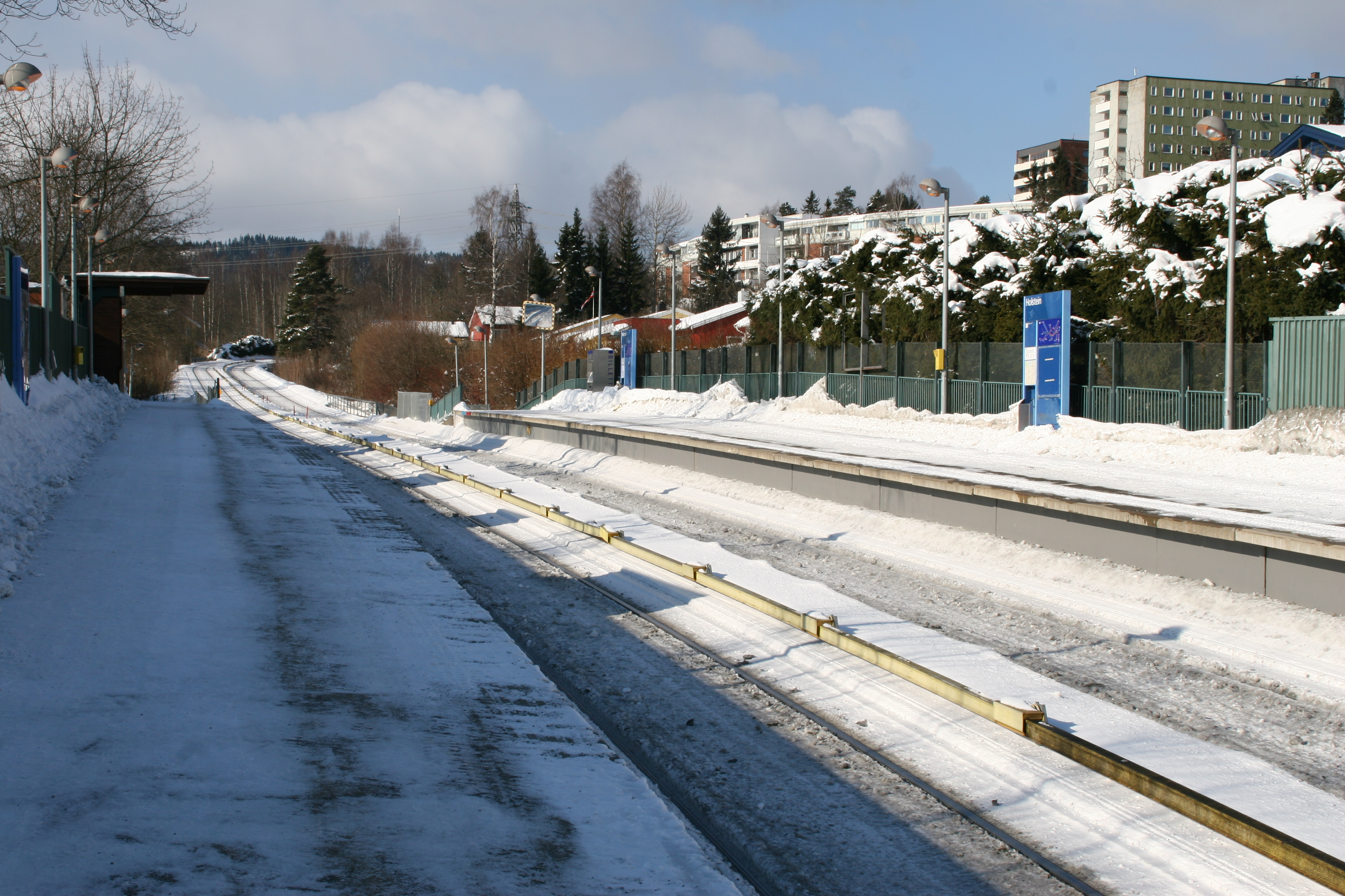 The Holstein subway station in Oslo, Norway. Date: 2006-03-10. Photographer: eao.